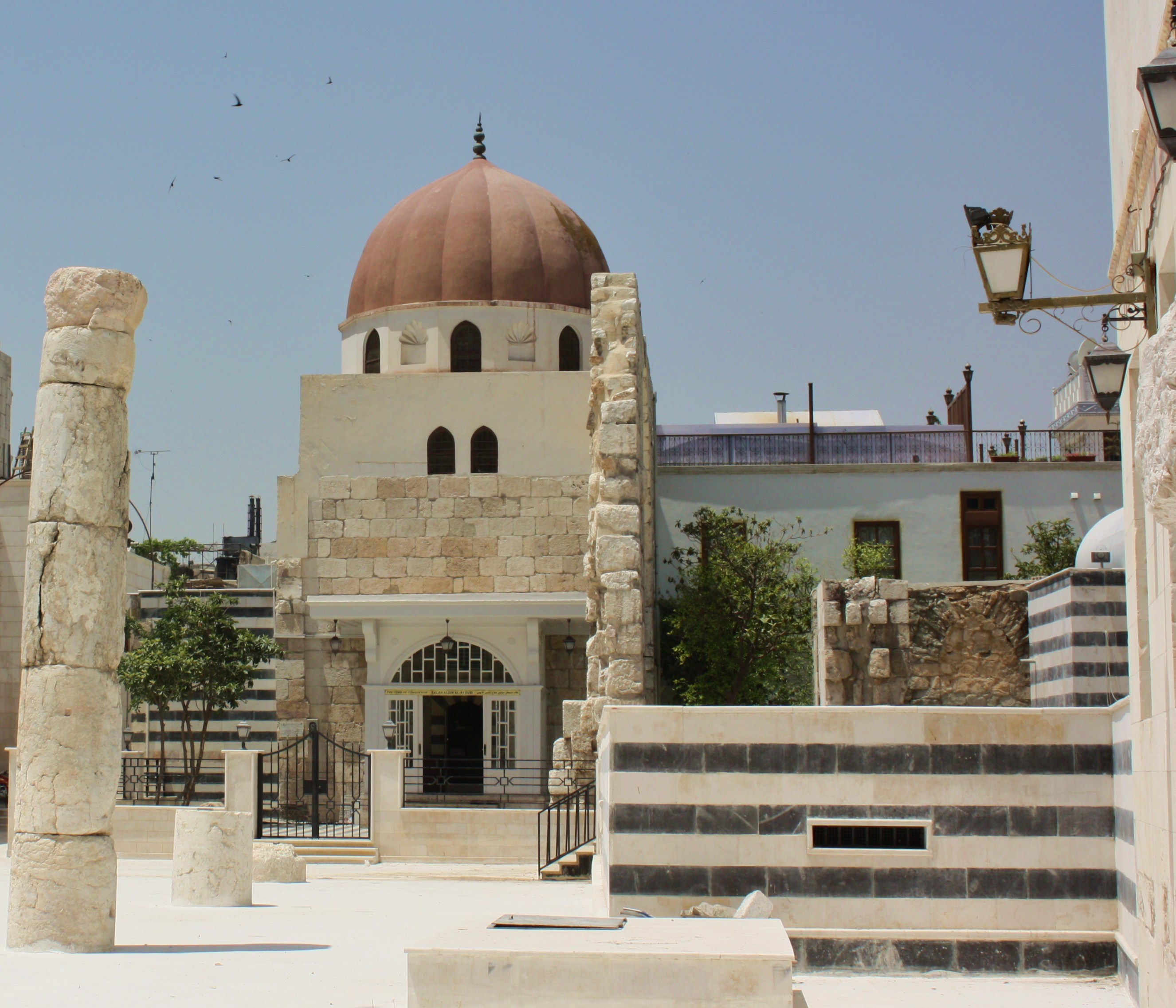 Saladin mouselum in Damascus.